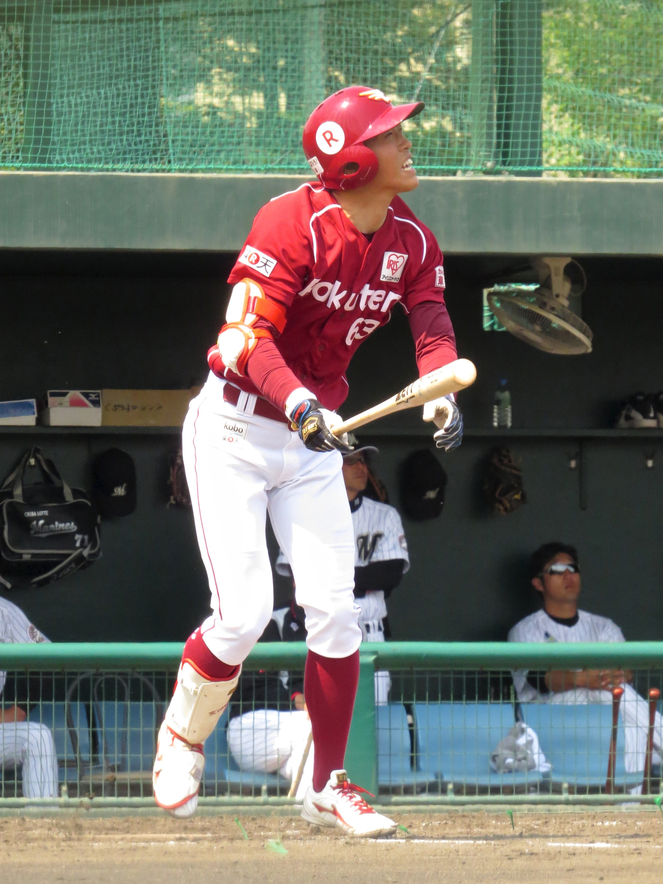 Rintaro Kitagawa, outfielder of the Tohoku Rakuten Golden Eagles, at Lotte Urawa Baseball Ground.